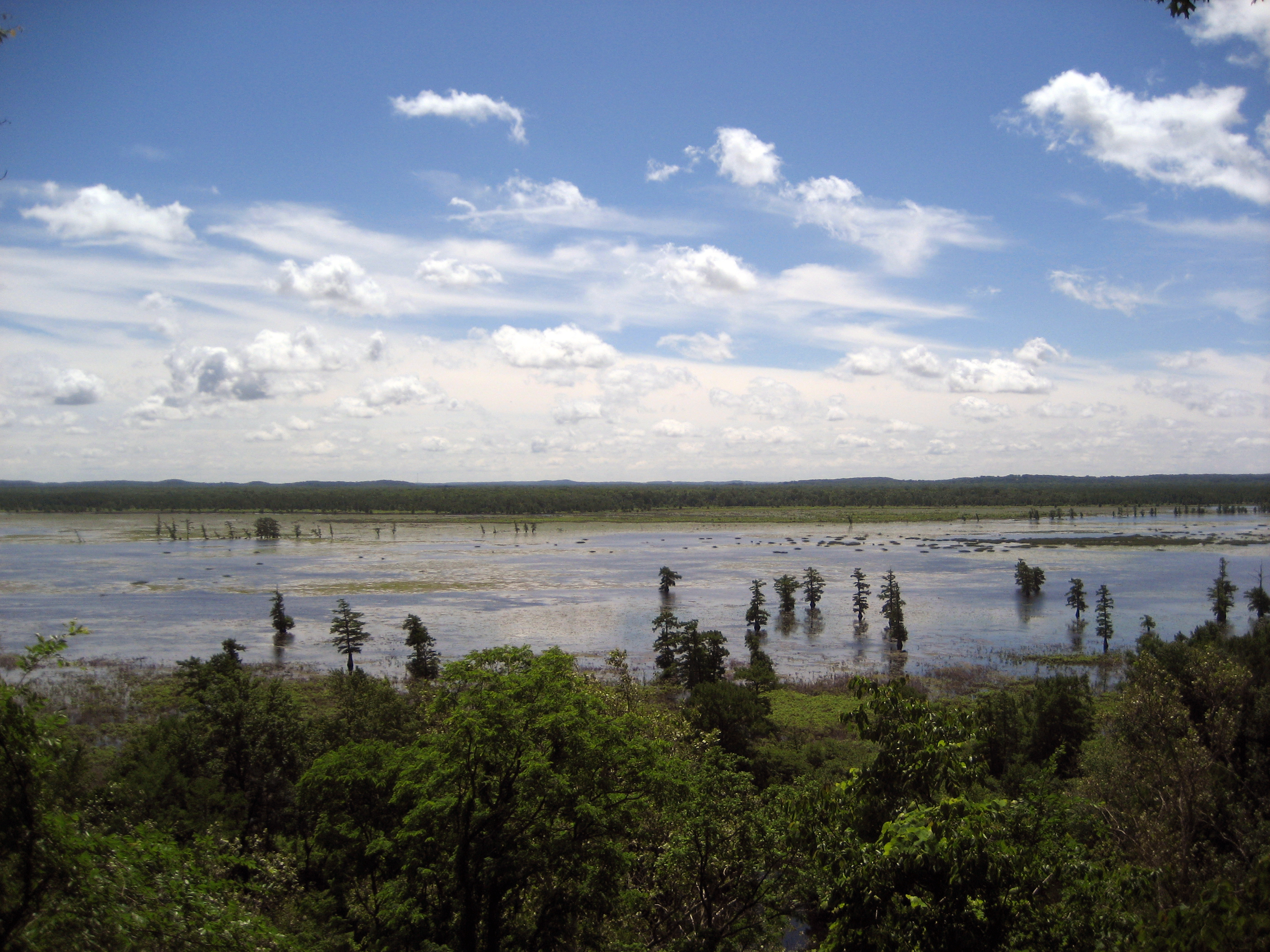 Mingo National Wildlife Refuge. Photo by Jason Goldberg/USFWS.